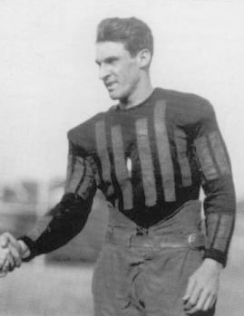 Vanderbilt captain Jess Neely prior to a match in 1922.